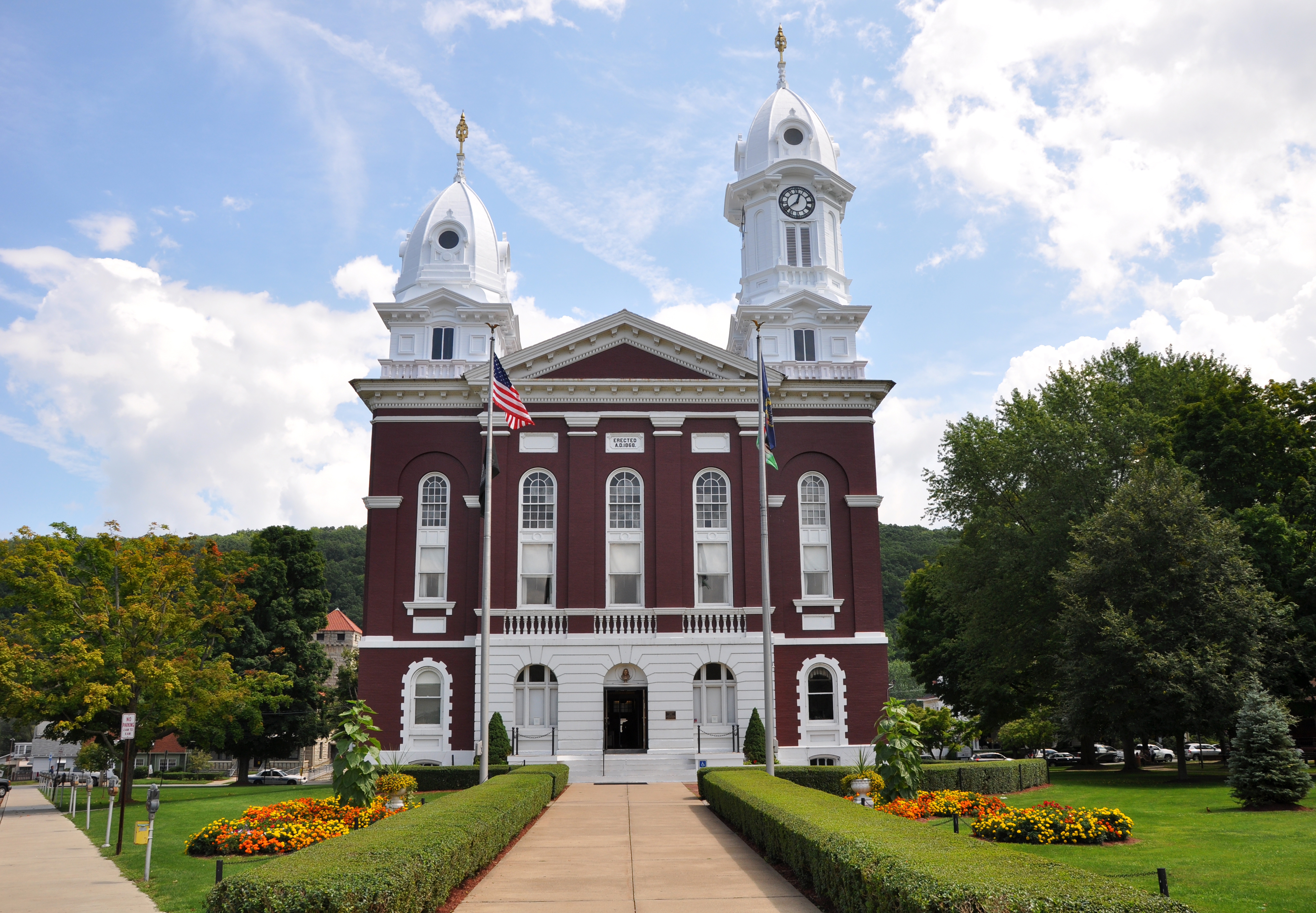 Front of the Venango County Courthouse, located at the intersection of Twelfth and Liberty Streets in Franklin, Pennsylvania, United States. Built in 1868, it is part of the Franklin Historic District, which is listed on the National Register of Historic Places Object location41° 23′ 36″ N, 79° 49′ 52″ W